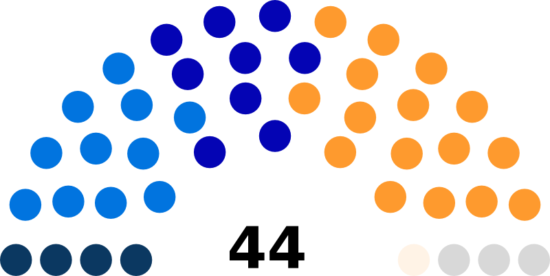 Seats diagramme of Swiss Council of States (1872)